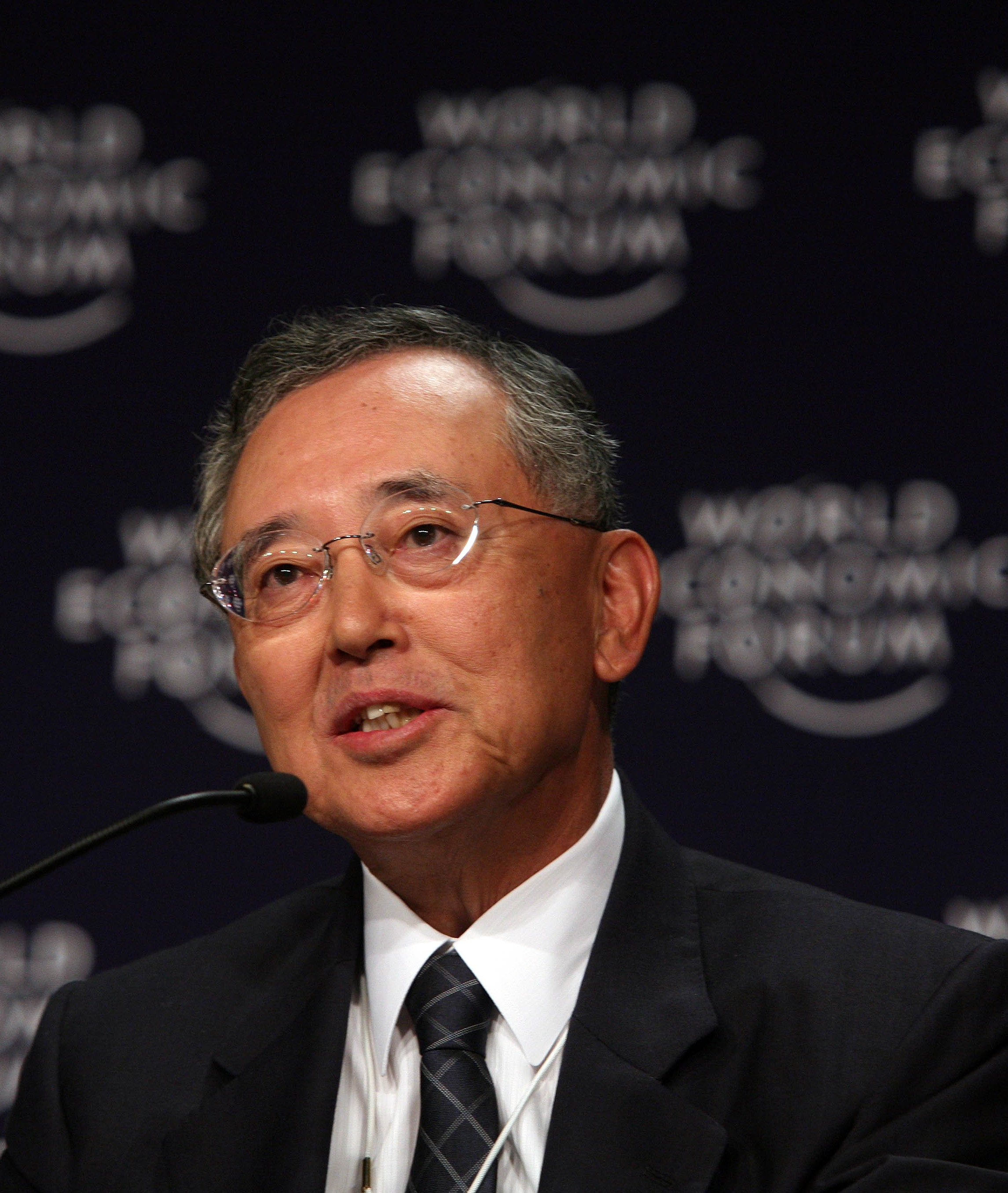 Yoshihiko Miyauchi speaks at the The Global Economic Outlook plenary session at the World Economic Forum Annual Meeting of the New Champions in Tianjin, China 27 September 2008.